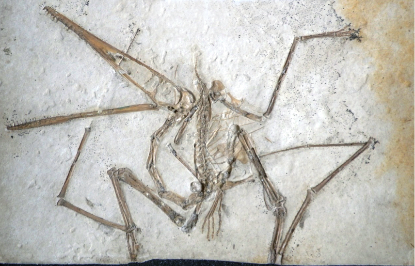 Holotype specimen of Pterodactylus antiquus, BSP AS I 739. Original photograph by Steven U. Vidovic, David M. Martill in Modified by Matthew Martyniuk: Cropped, color adjusted. Top central portion of non-fossil-bearing slab digitally altered to remove portion of ruler.